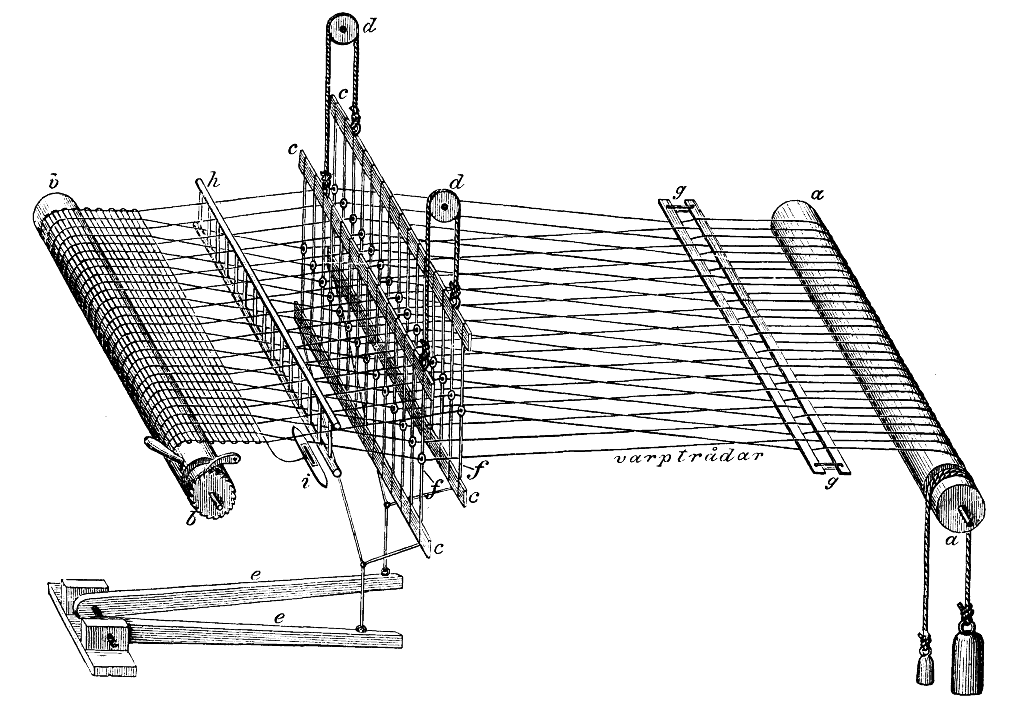 Schematic description of a Loom. a backbeam b front beam c harness or shaft d pulleys e treadles f heddle g lease sticks h beater i shuttle